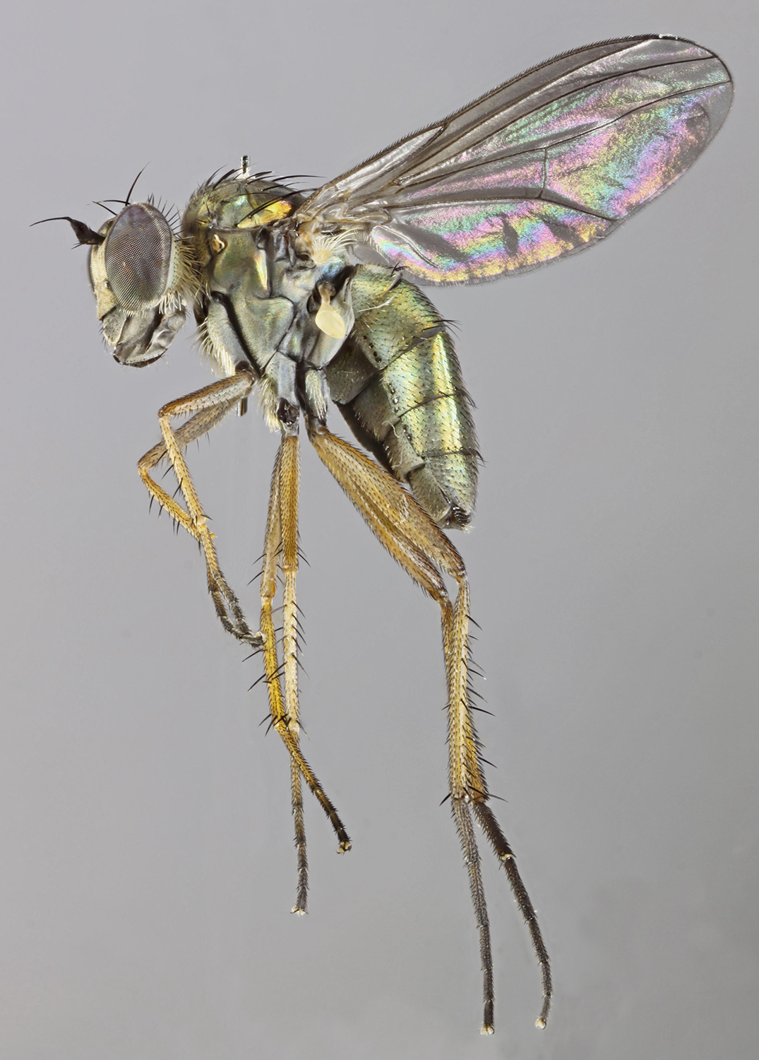 Rhaphium consorbrinum female, Towyn, North Wales, Aug 2013